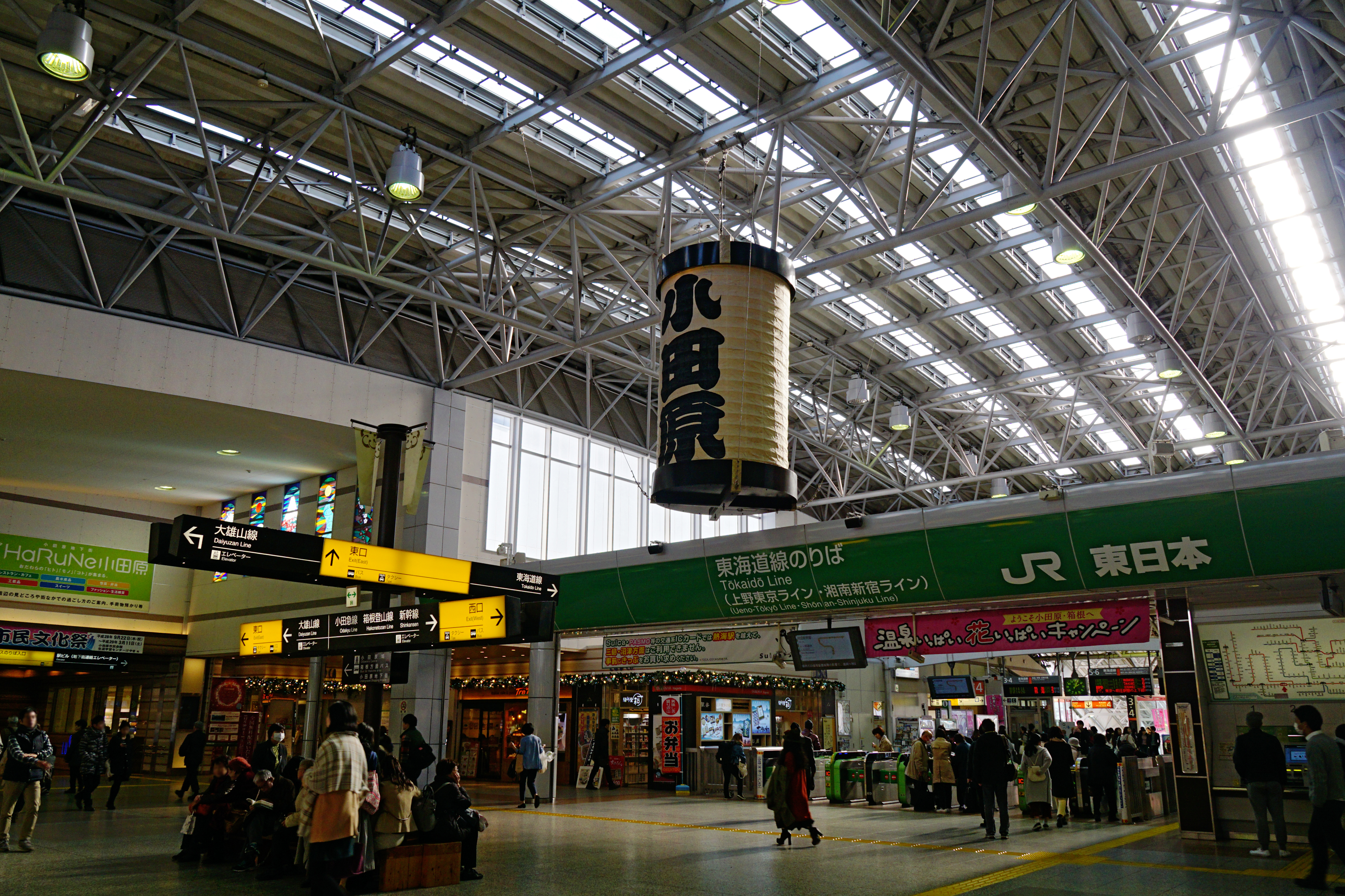 Odawara Station in Odawara, Kanagawa Prefecture, Japan